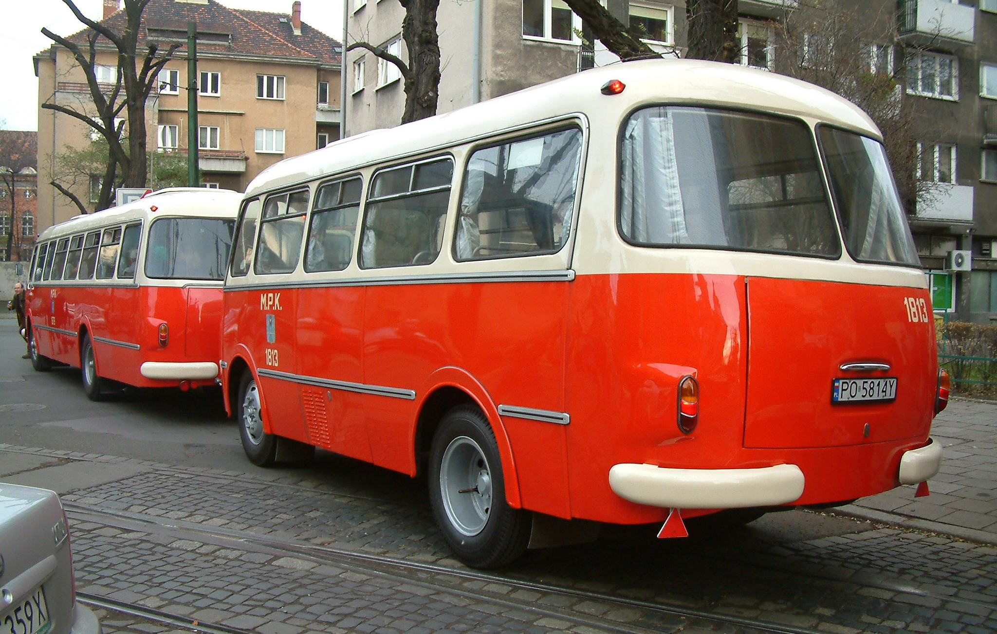 Jelcz O43 bus (#1679, built 1985) and bus trailer Jelcz P01 (#1813, built 1972) in Poznań, Poland. MPK Poznań operator.